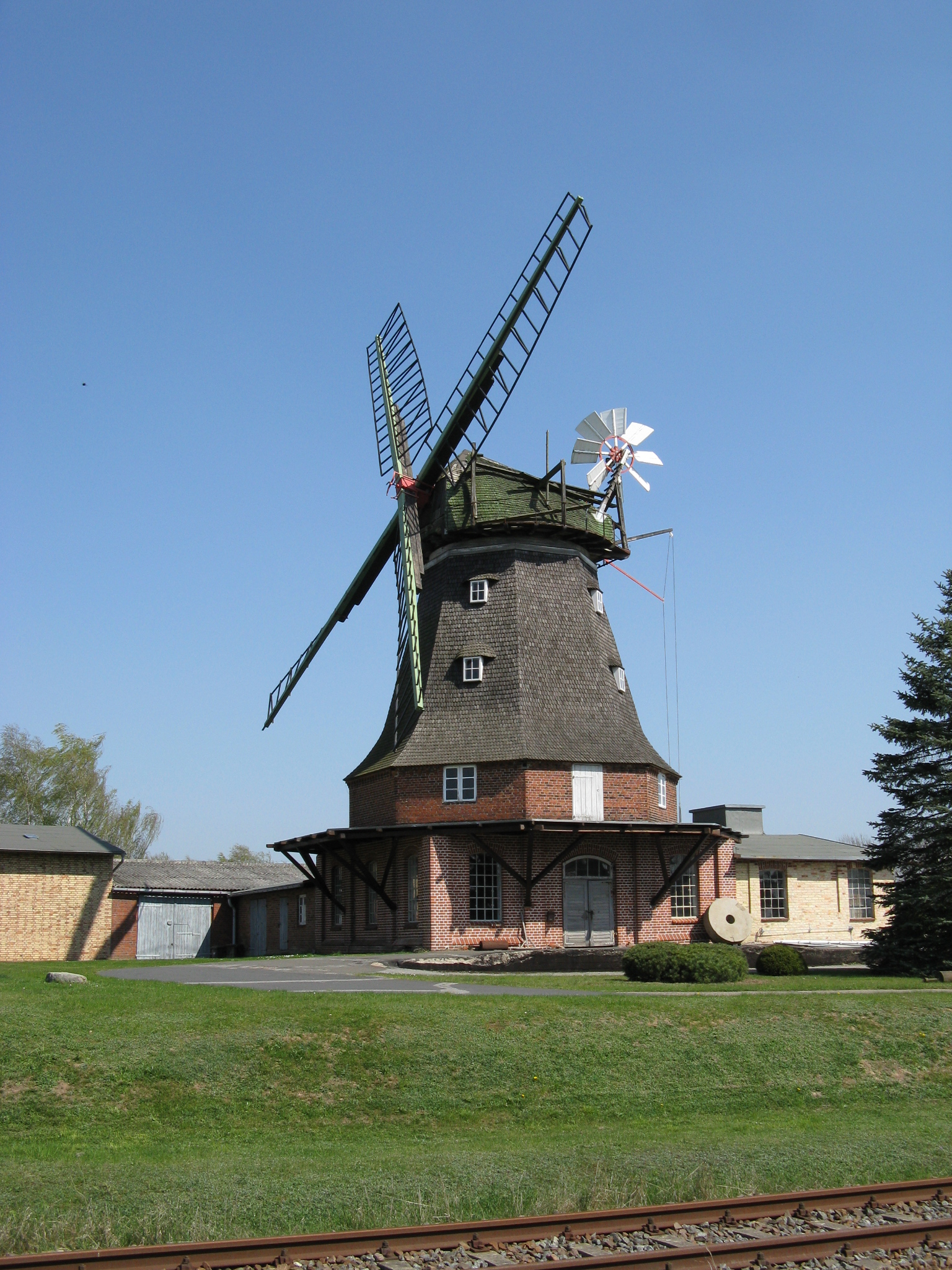 Windmill in Dabel, disctrict Parchim, Mecklenburg-Vorpommern, Germany